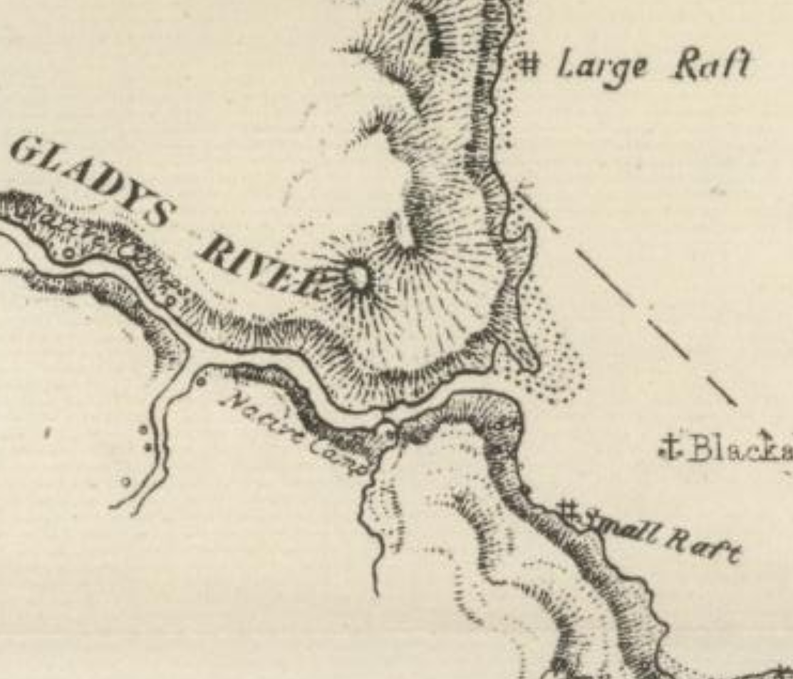 Drawing of the Gladys River (Johnstone River) showing native settlements